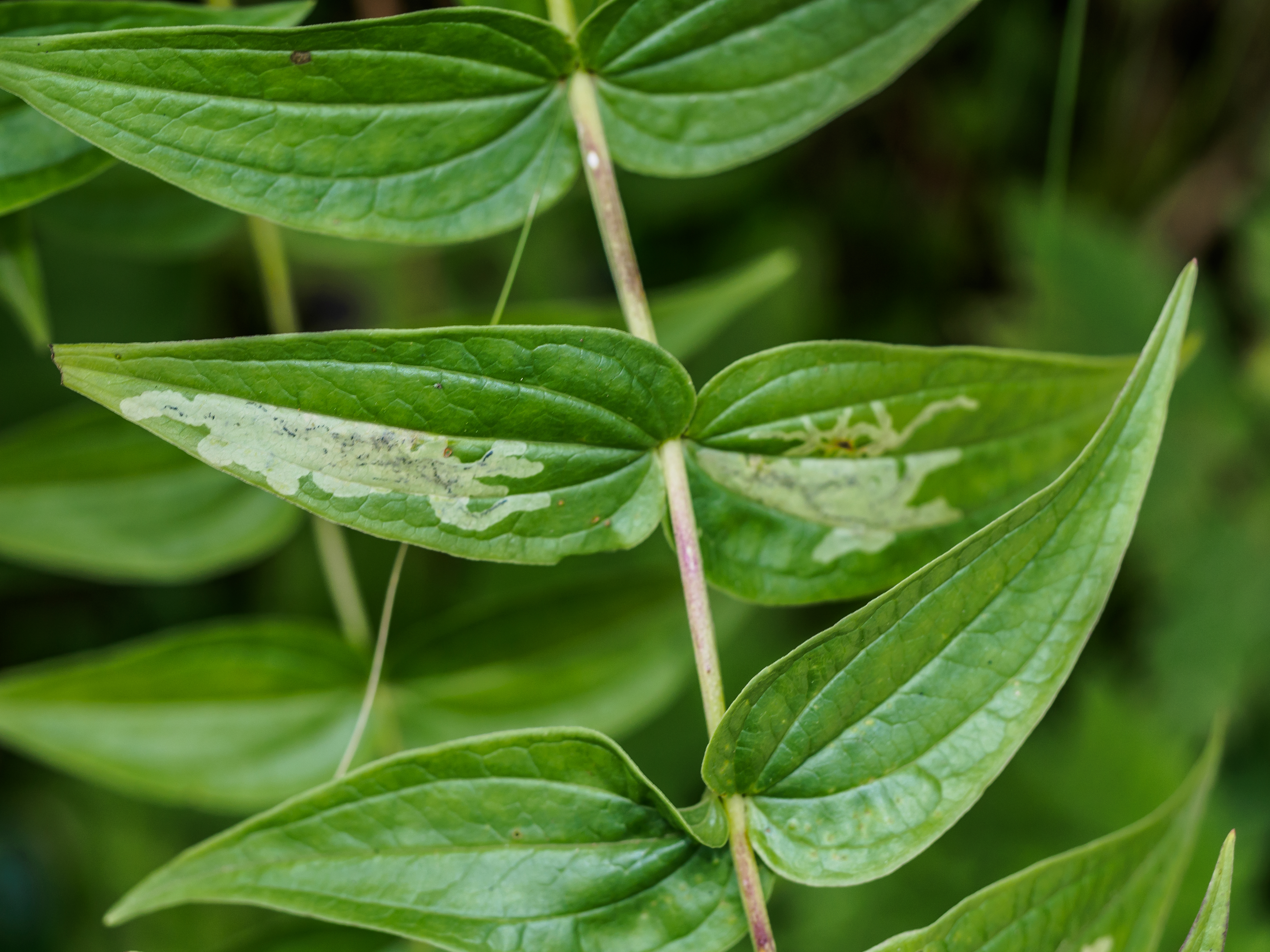 Leaf mines of Chromatomyia gentianae on [Gentiana asclepiadea] (Austria, Styria, Teichalm).